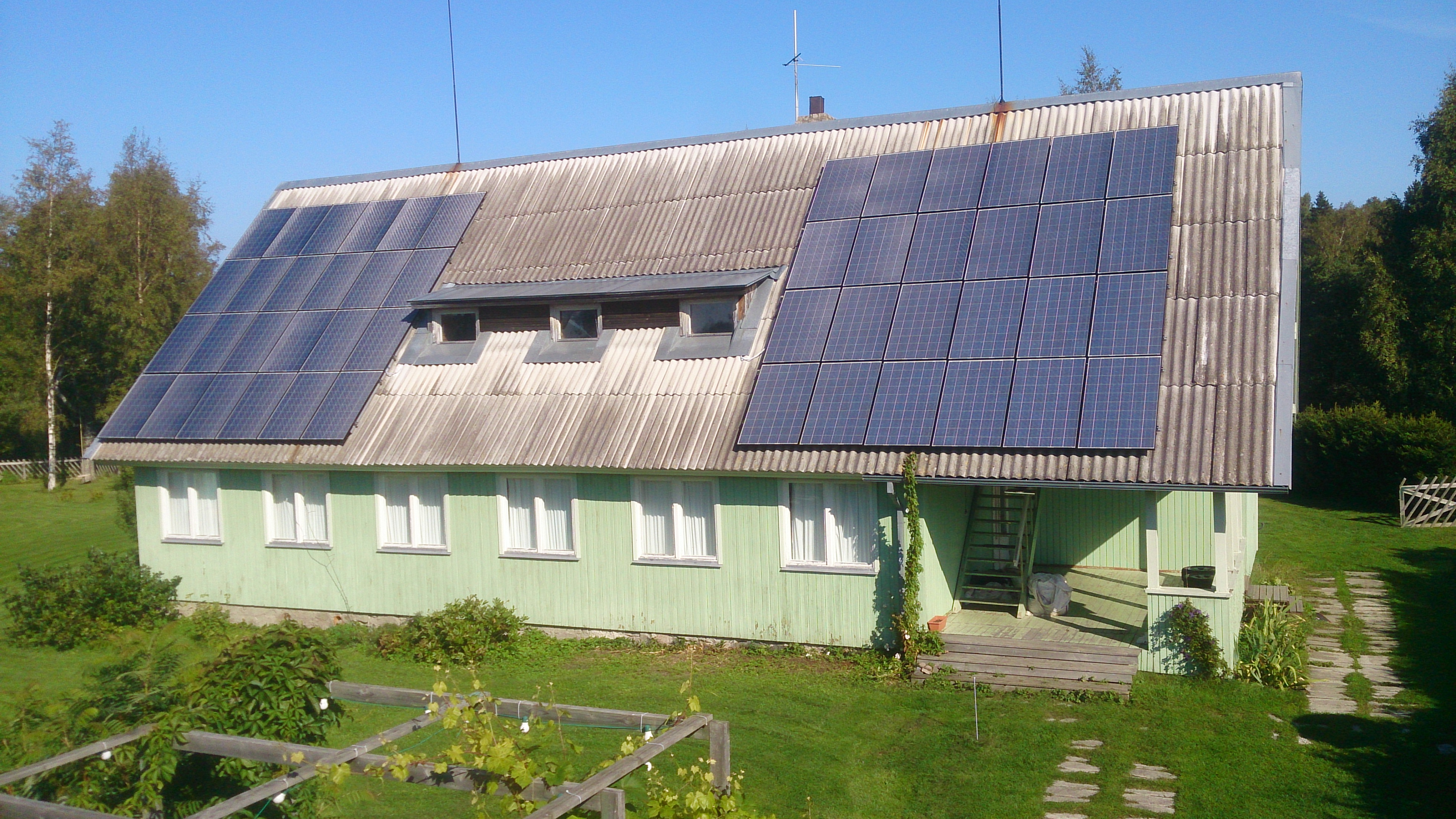 Juminda päikeseelektrijaam